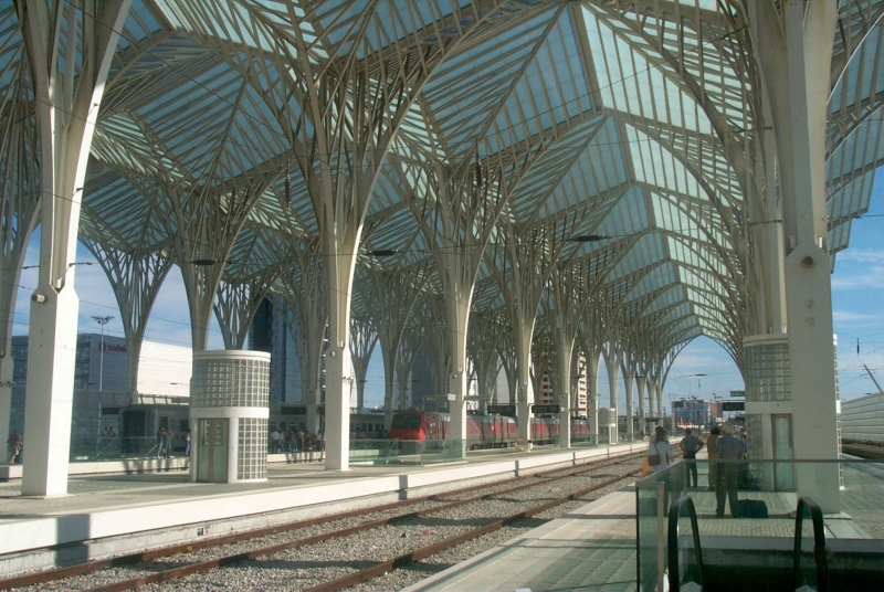 Gare do Oriente train station, Lisbon, Portugal